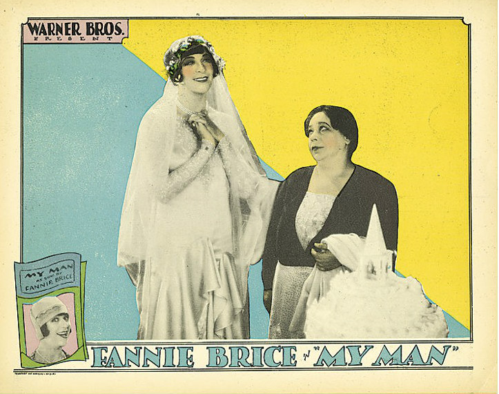 Lobby card for the American comedy drama film My Man (1928).